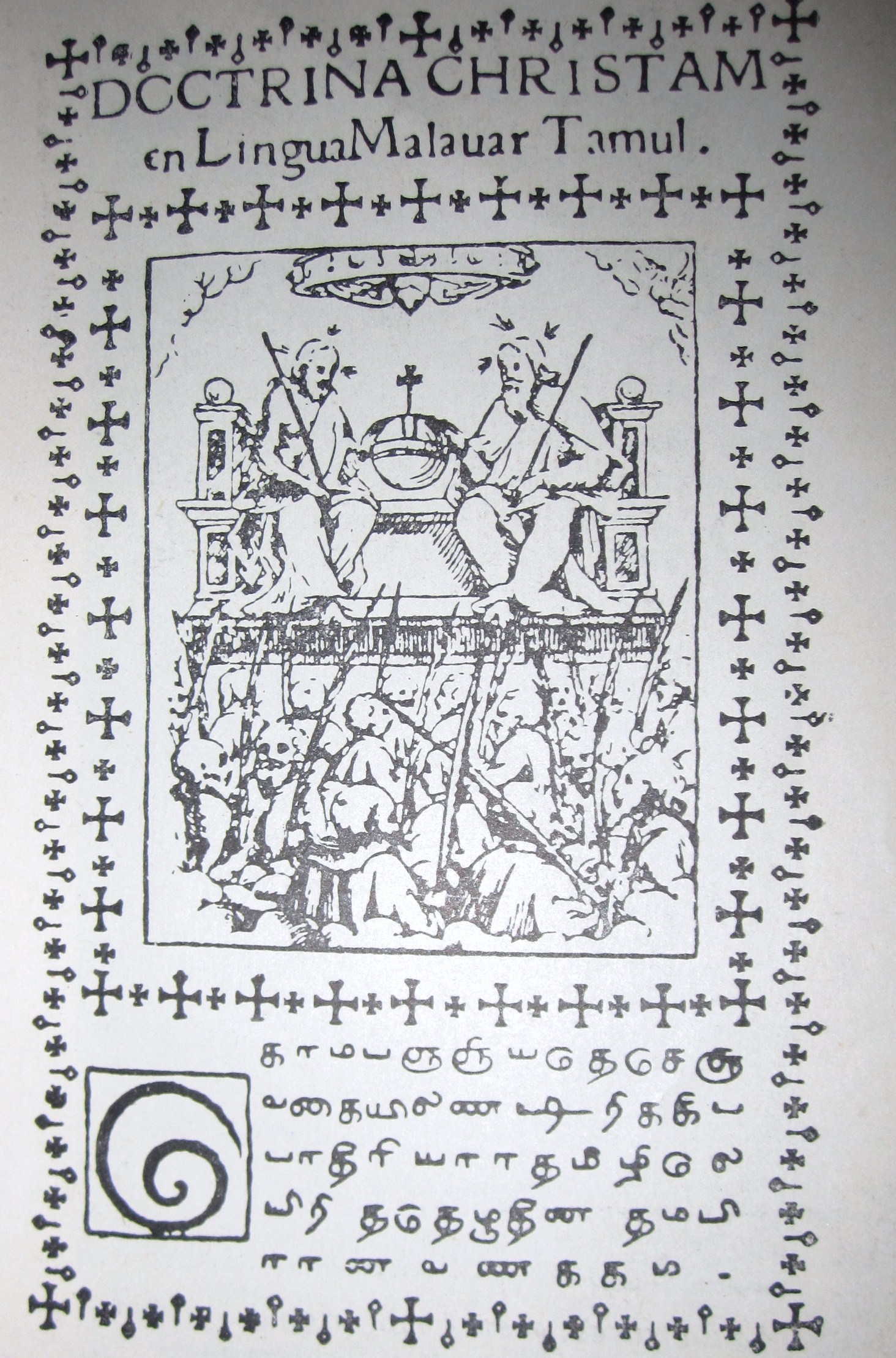 Thambiraan Vanakkam; First book printed in Tamil Nadu, India. The book was published by the Portuguese Jesuit priest Henrique Henriques in October 20, 1578 at Kollam, Kerala. It is a book on Christianity (a translation of "Doctrina Christam" from Portuguese). The first 8 pages of the 16 page book was printed using types prepared in Kollam (in 1577). The rest of the pages were printed using corrected types manufactured the next year. This book is in the University of Harvard library. "Lingua Malabar Tamul" is how Tamil was known to the Portuguese.